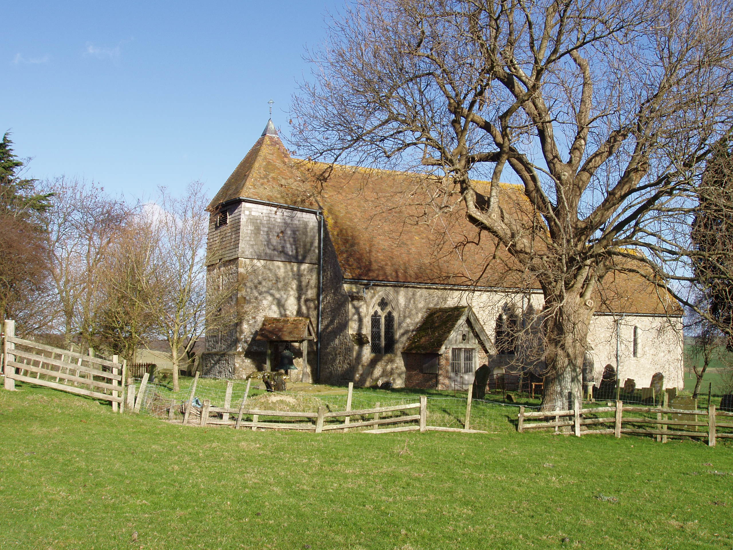 Bilsington Parish Church, Bilsington, Romney Marsh, Kent